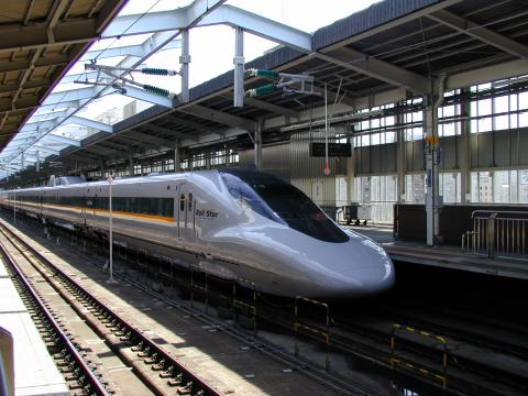 Hikari Railstar train, Shin-Osaka station, Japan. Picture taken by User:Ianb.